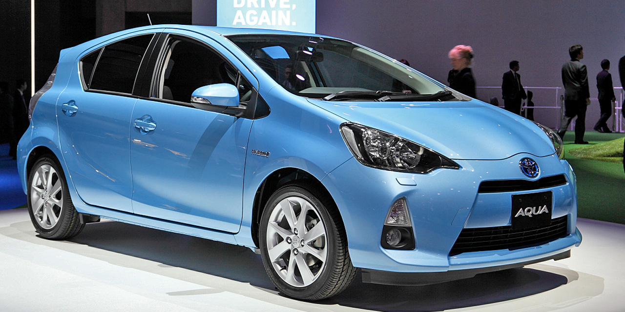 Toyota Aqua (Tokyo Motor Show 2011)